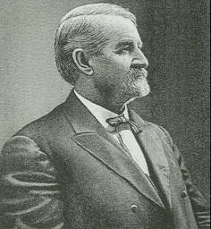 Portrait of Joseph W. Adair (born 1843 per defense attorney in the 1893 Luther Alexander Gotwald heresy trial